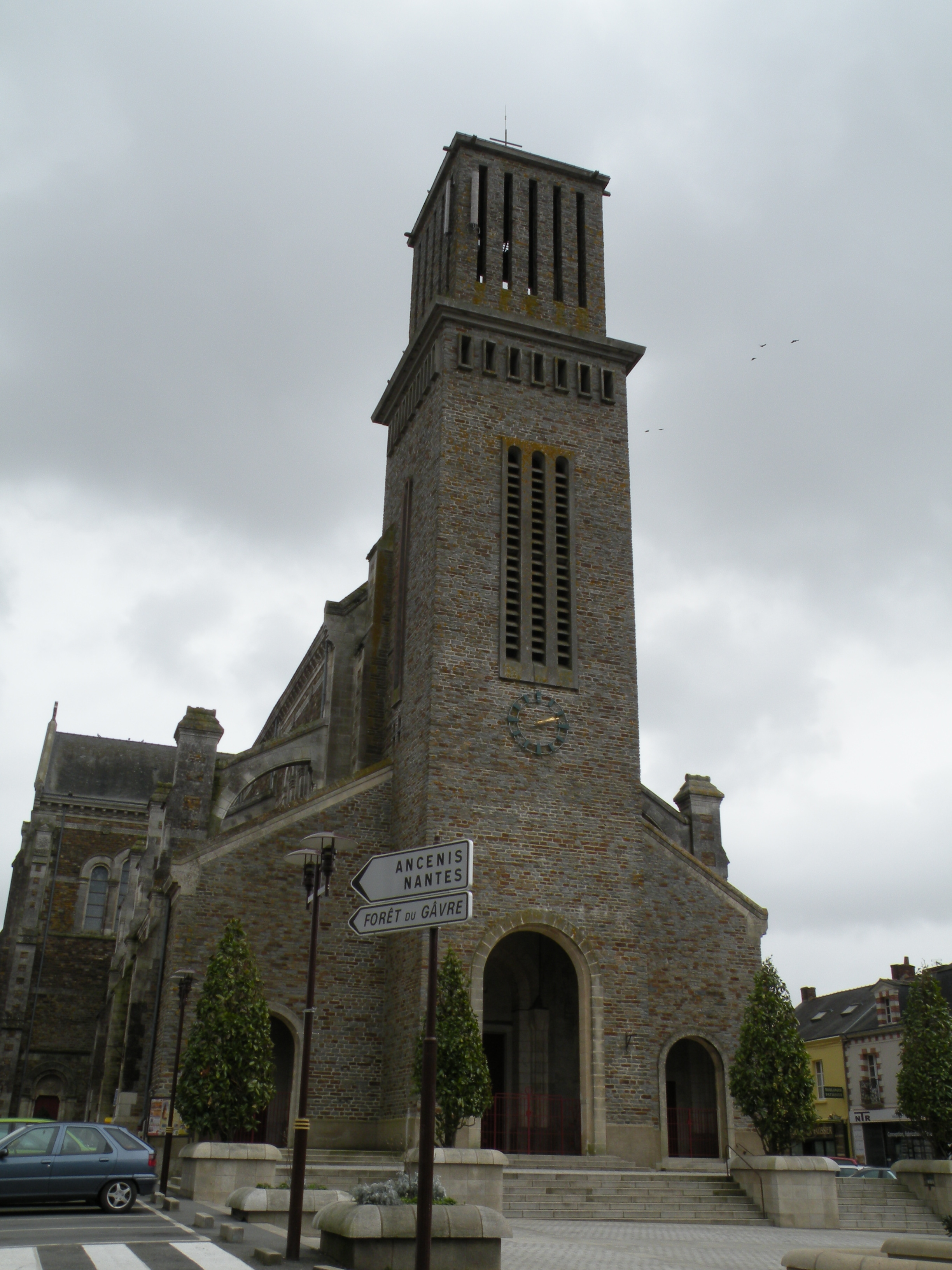 Church of Blain